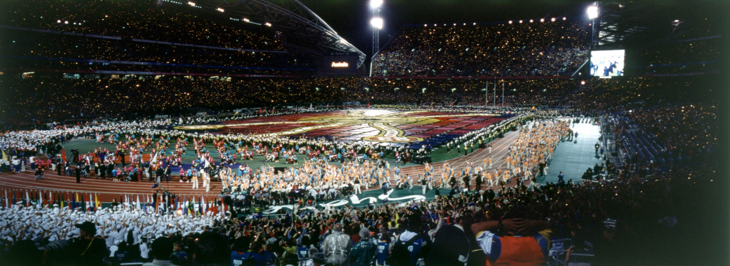 Panoramic view of the festivities at the 2000 Sydney Paralympic Games opening ceremony. The Australian Paralympic Team athletes can be seen in the parade.